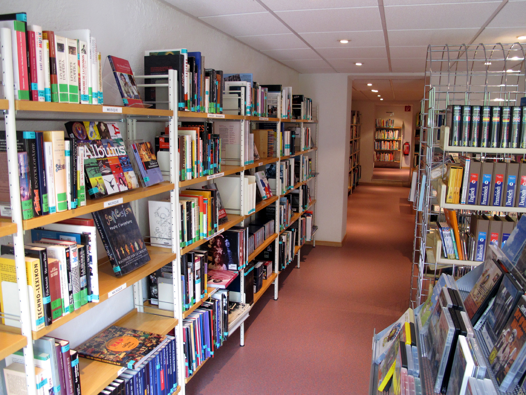 Basement of the municipal library of Esch-Alzette, Luxembourg